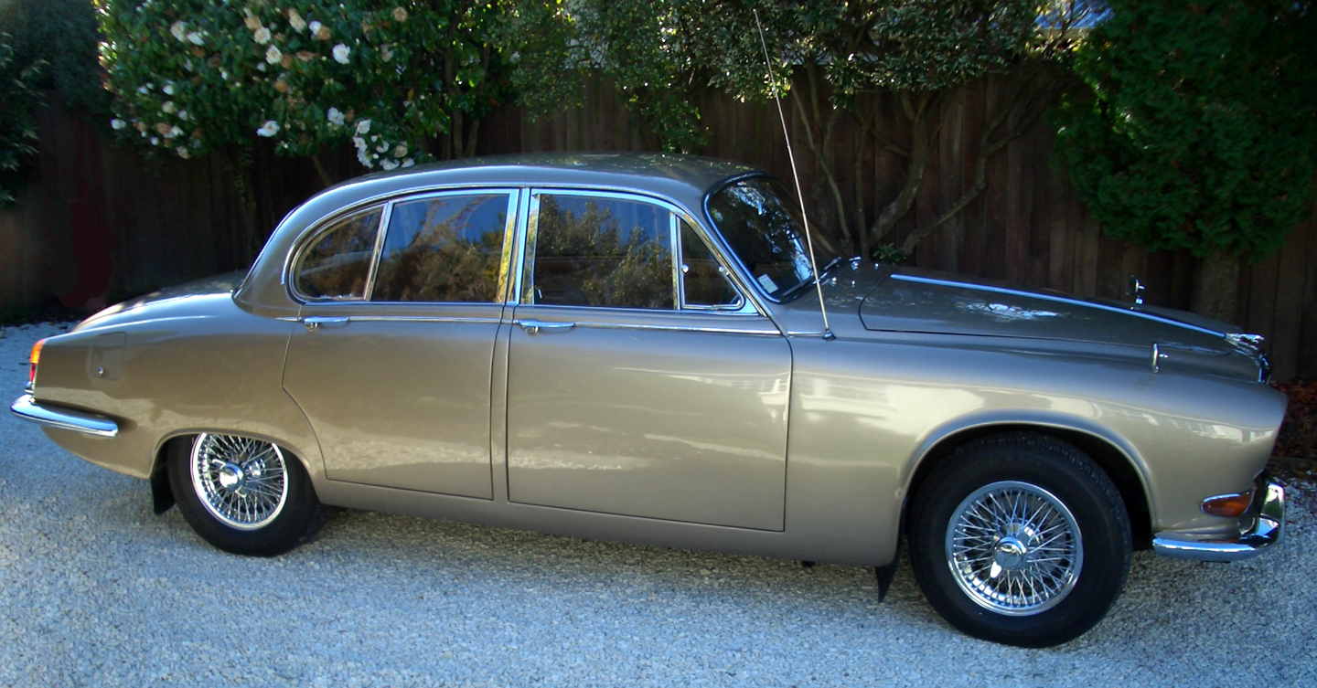 Profile shot of 1968 Jaguar 420 in gold with Dunlop pattern chrome wire wheels